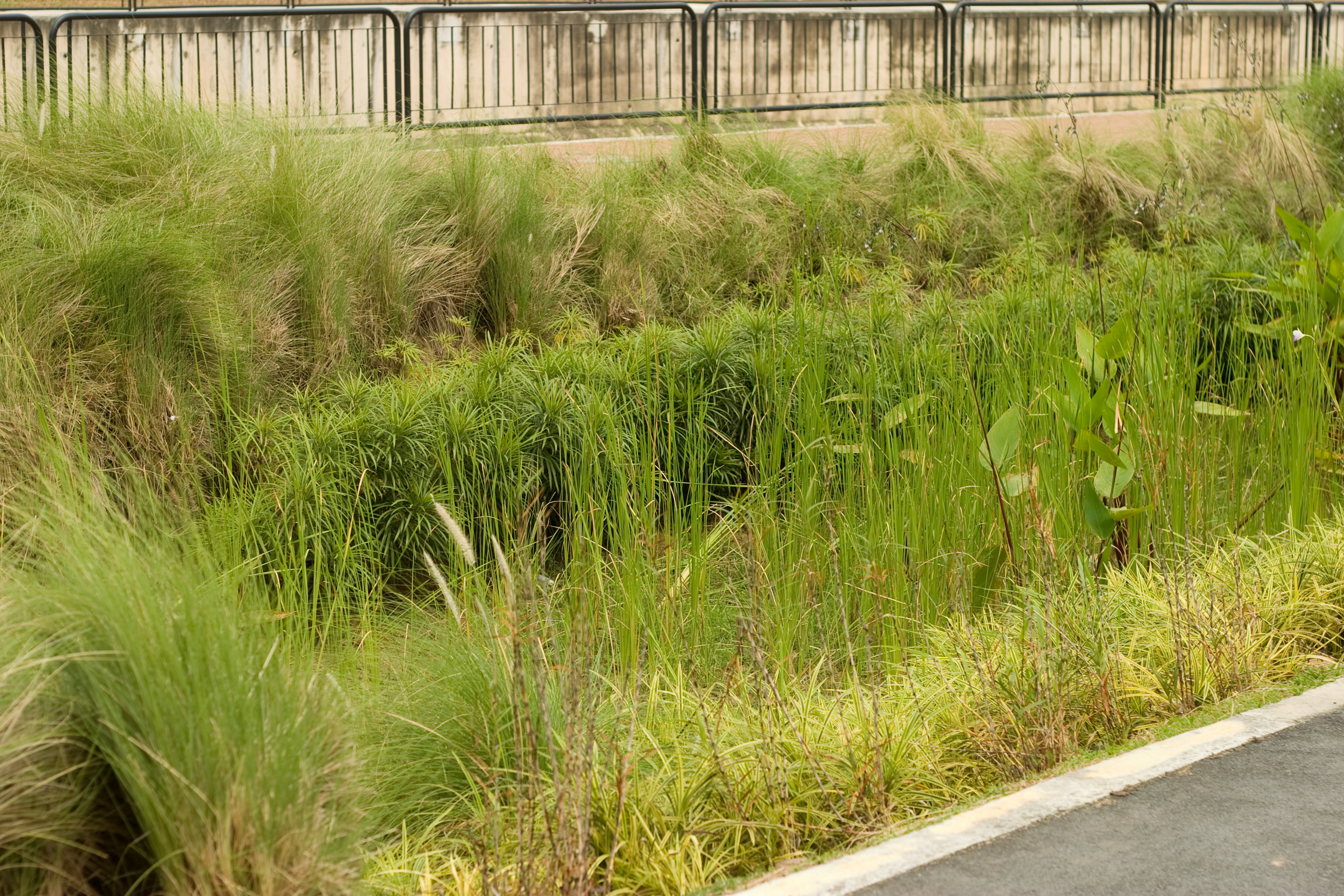 The Balam Estate rain garden in Singapore provides an effective stormwater management system. Rainwater passes through the rain garden, and the filtered water then flows into the stormwater drain.